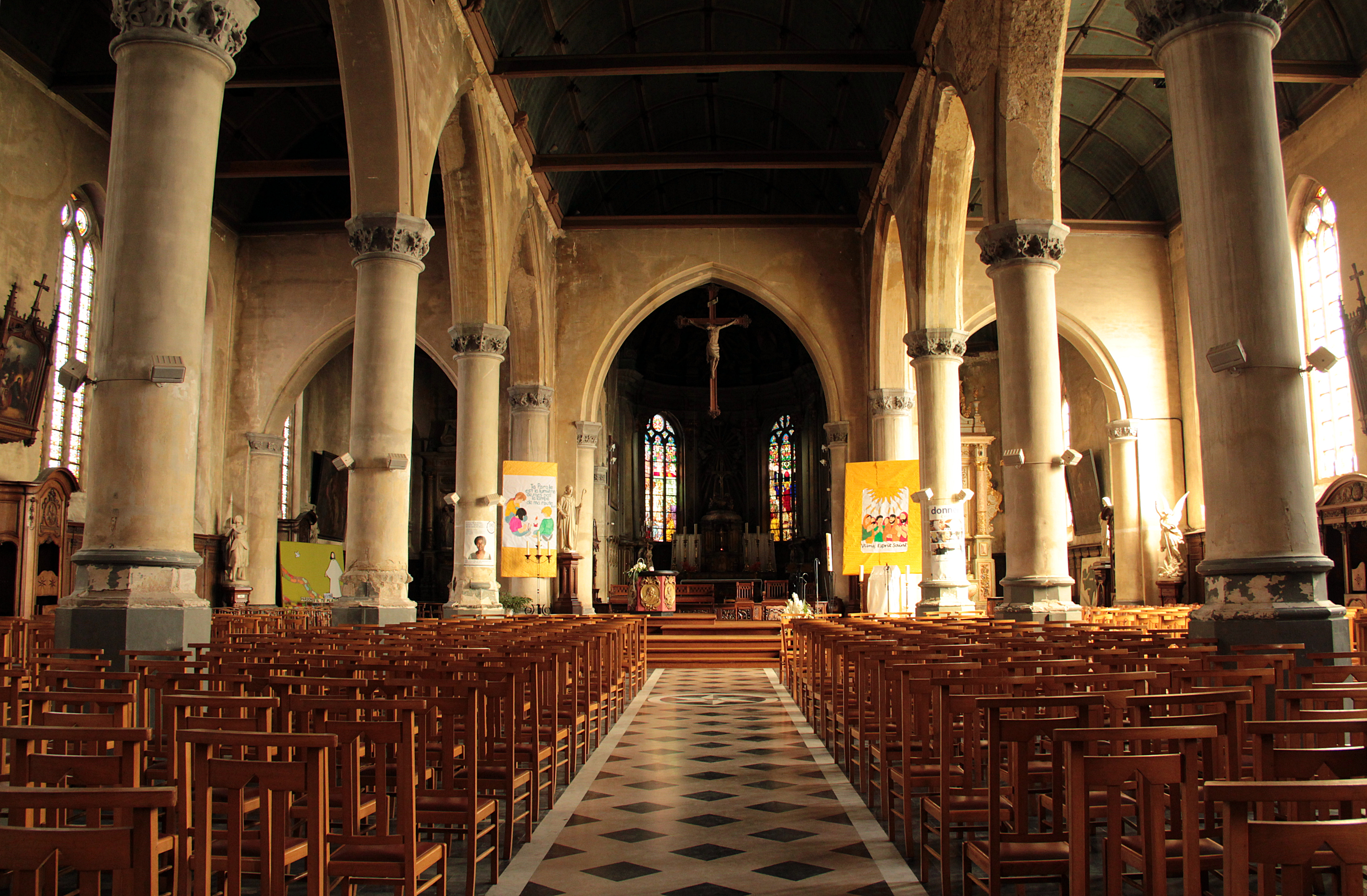 Wormhout (France), the nave, aisles and the choir of the Saint Martin's church (XVIIth century).